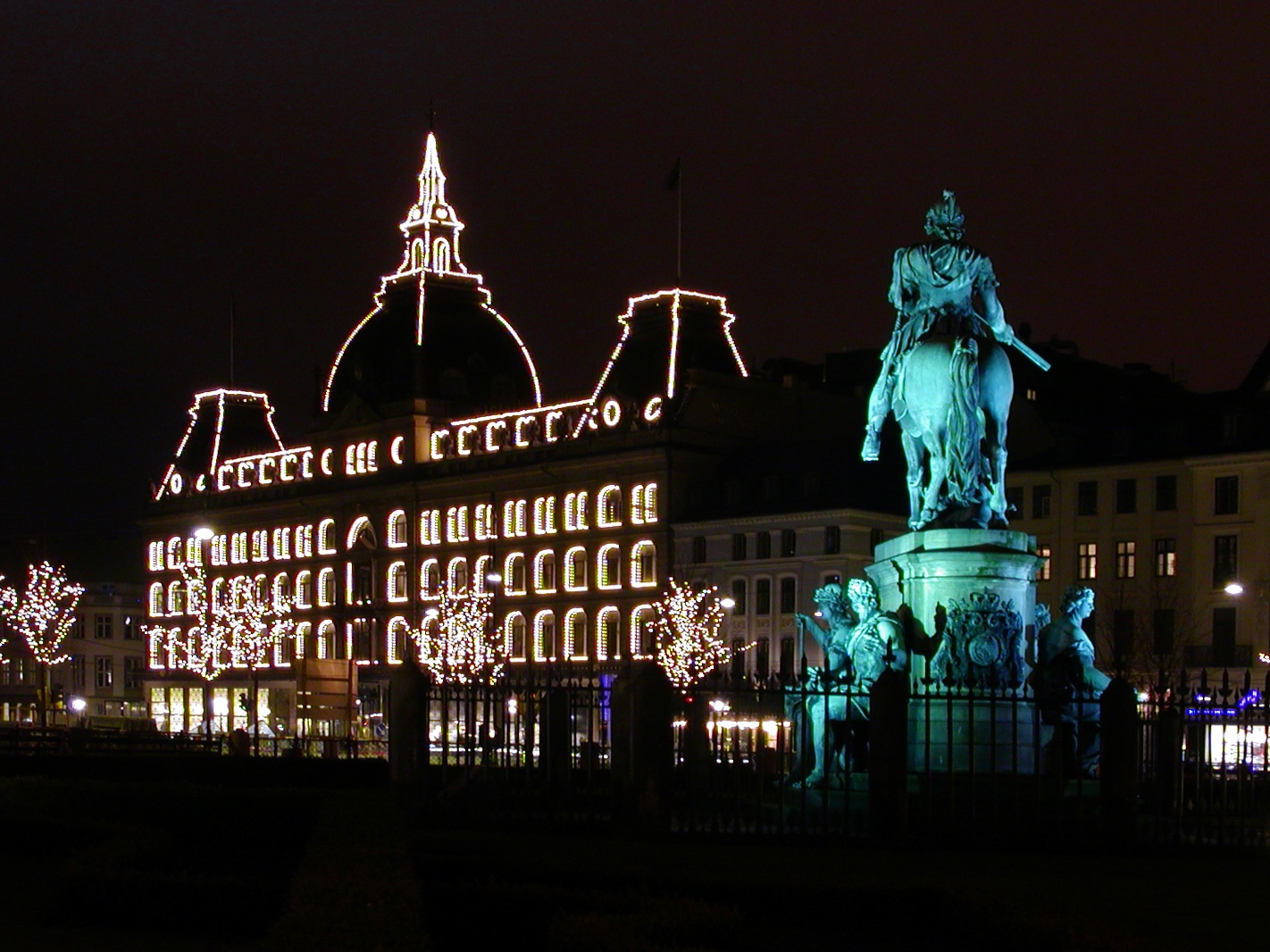 The equestrian statue of Christian V at Kongens Nytorv in Copenhagen.